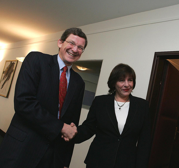 US Under Secretary Marc Grossman meets with Foreign Minister Ilinka Mitreva of Macedonia in Skopje